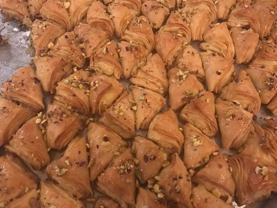 Warbat-desserts وربات بالقشطة